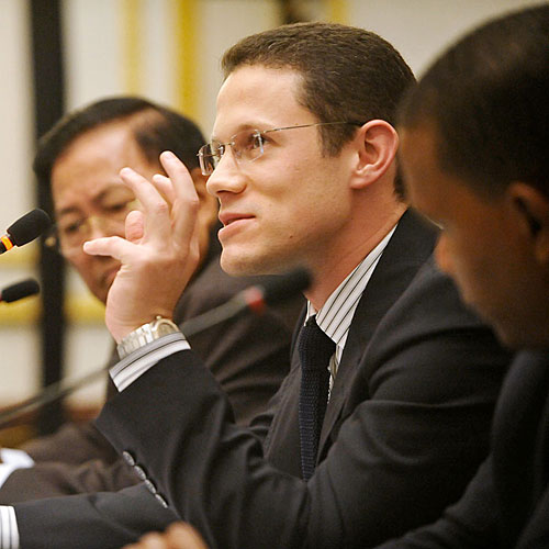 Badr Jafar (center) with United Nations Secretary General Ban-Ki Moon at the United Nations in 2009.